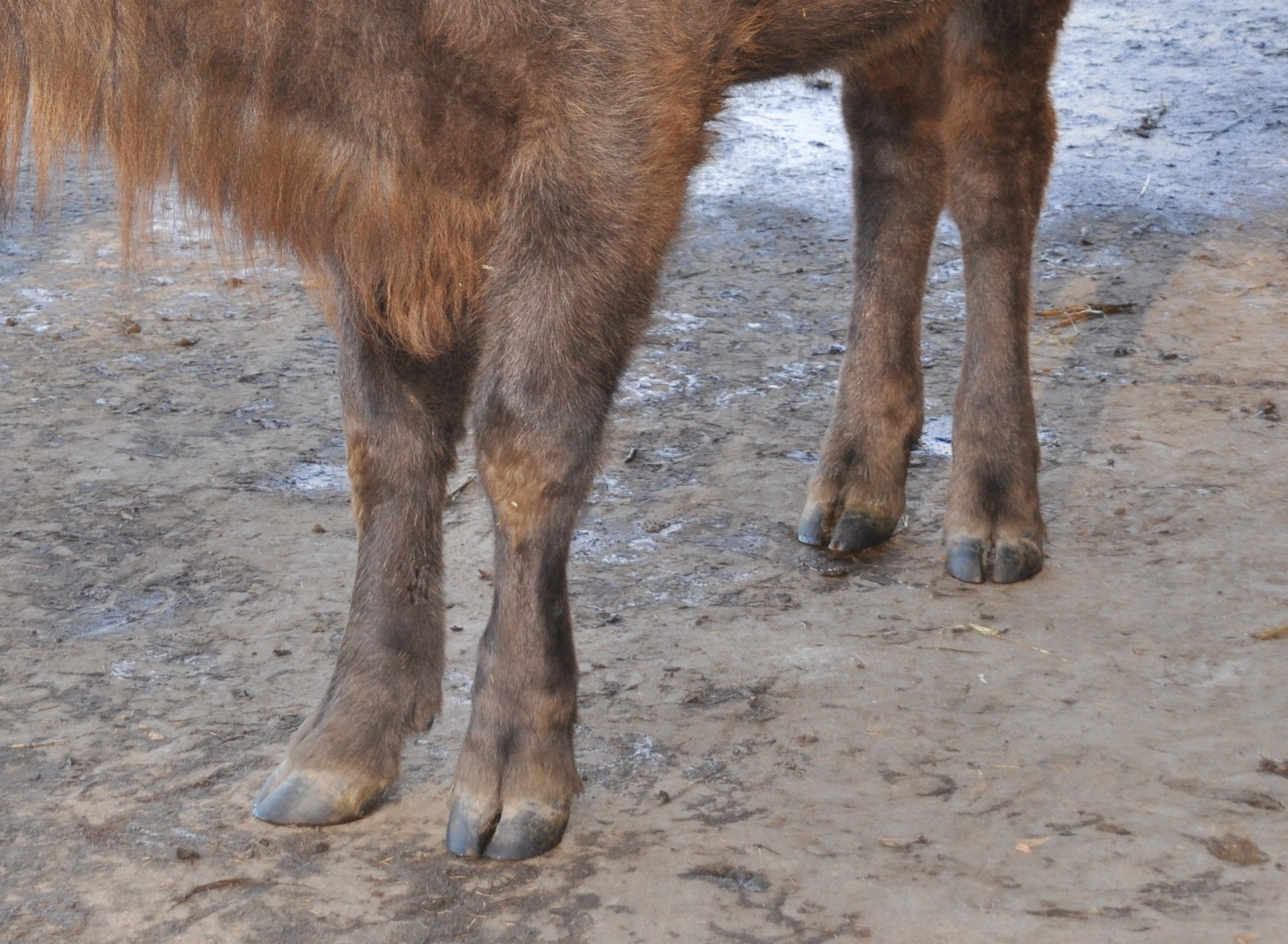 Legs of a Wisent (Bison bonasus) in the Lüneburg Heath wildlife park, Germany.